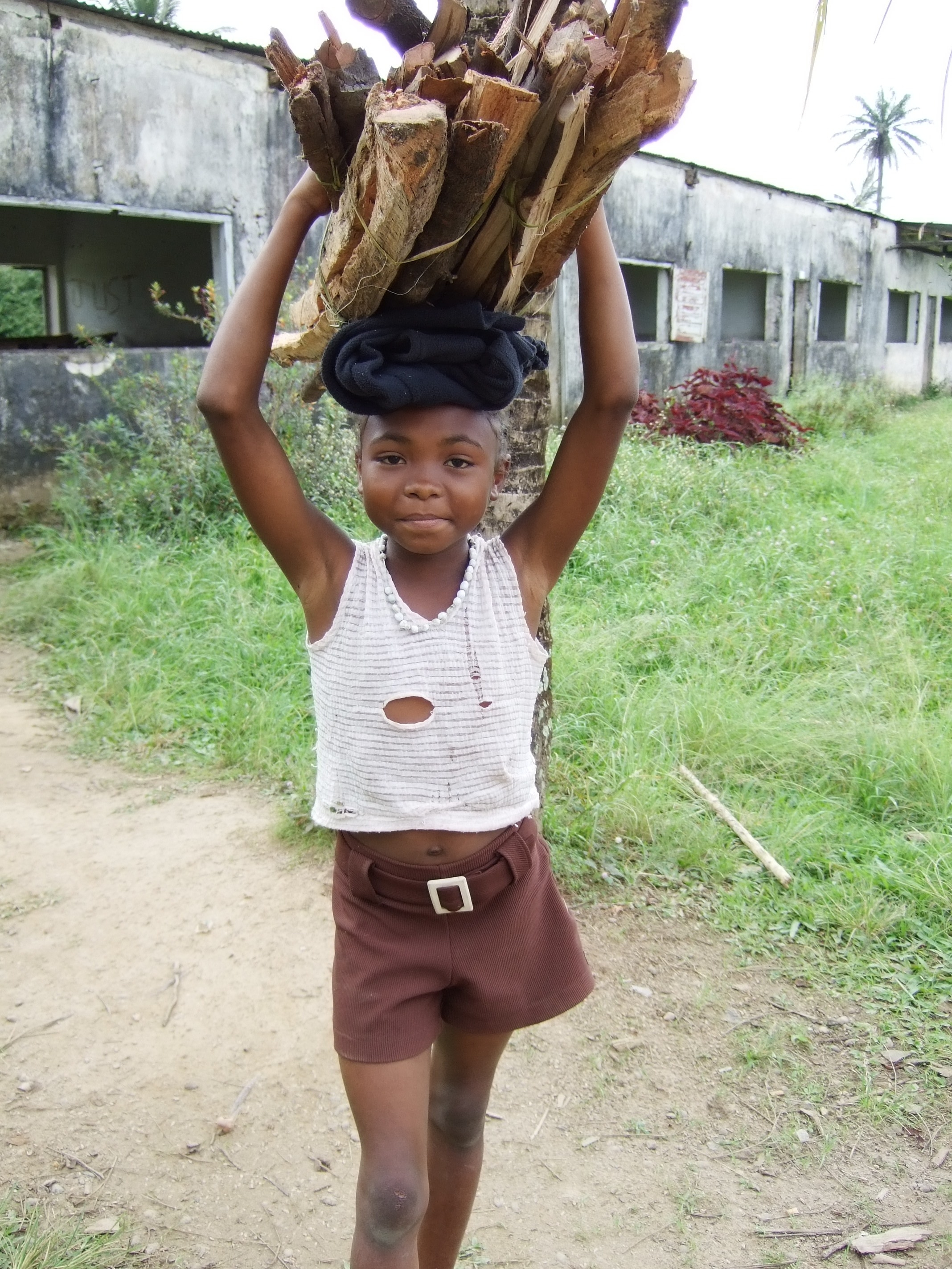 Working Child Brickaville Madagascar carrying wood for the family. Photo taken on CEG Brickaville schoolyard.